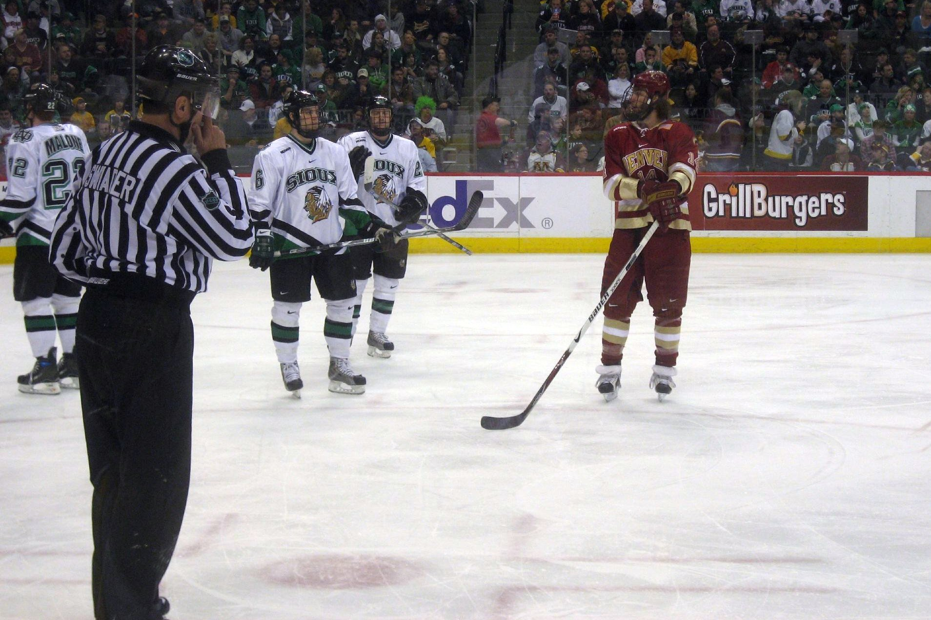 Fighting Sioux (University of North Dakota) vs. Denver Pioneers (University of Denver, #14 Tom May), WCHA Final FIVE 2008